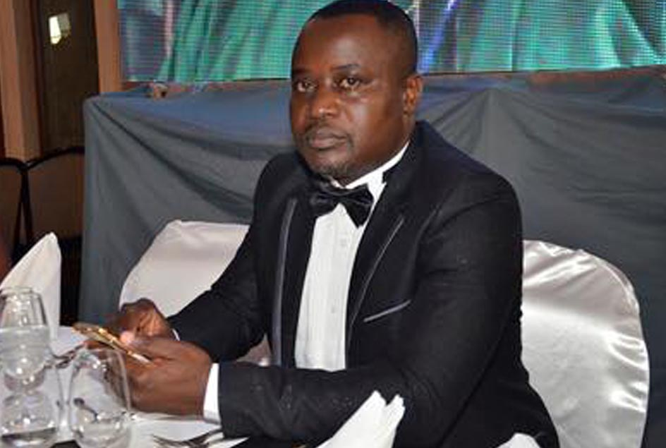 President of Yong Sports Academy YOSA